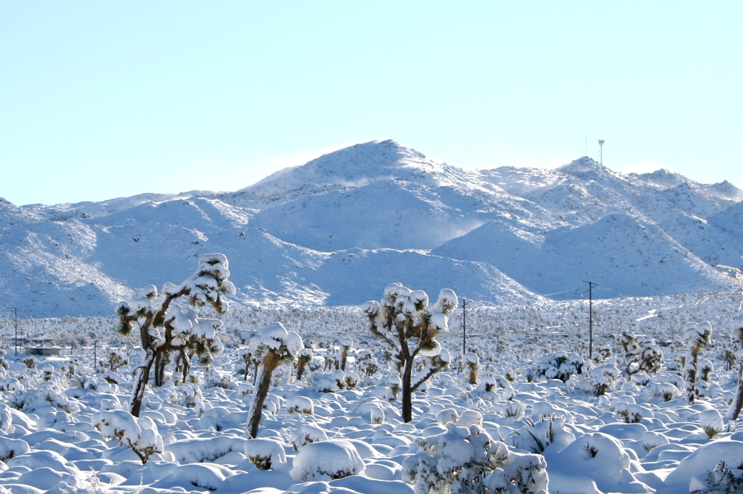 San Bernardino Suburb: Yucca Valley-Joshua Tree - photo by Mike Sims